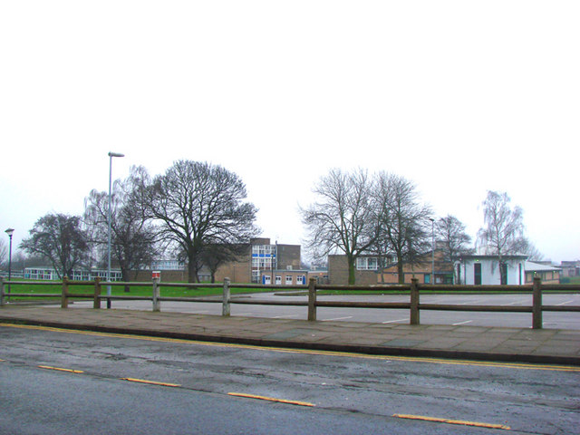 Don Valley High School